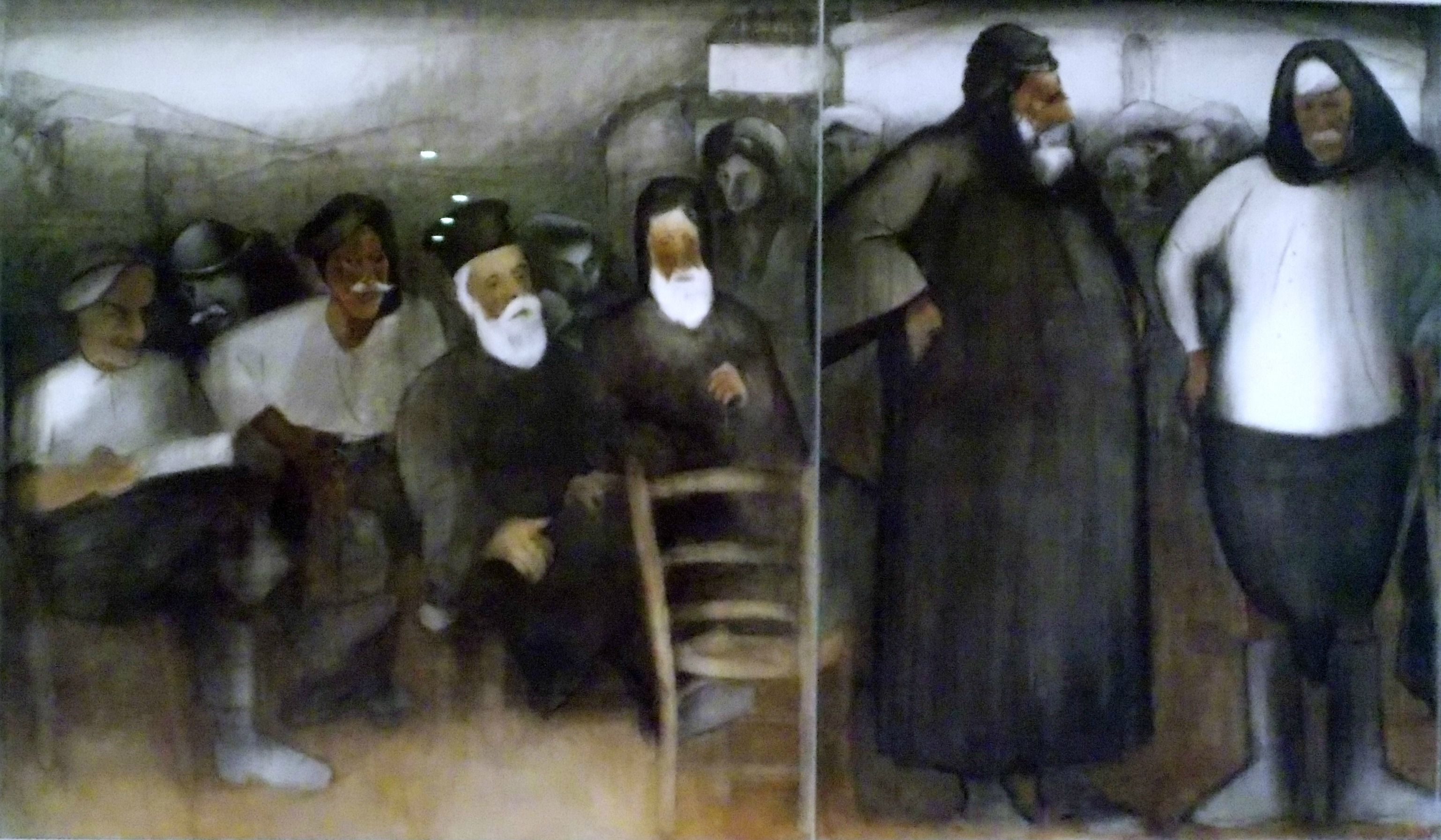 Leventis Gallery, Nicosia, Cyprus. Adamantios Diamantis - The World of Cyprus, part 3.